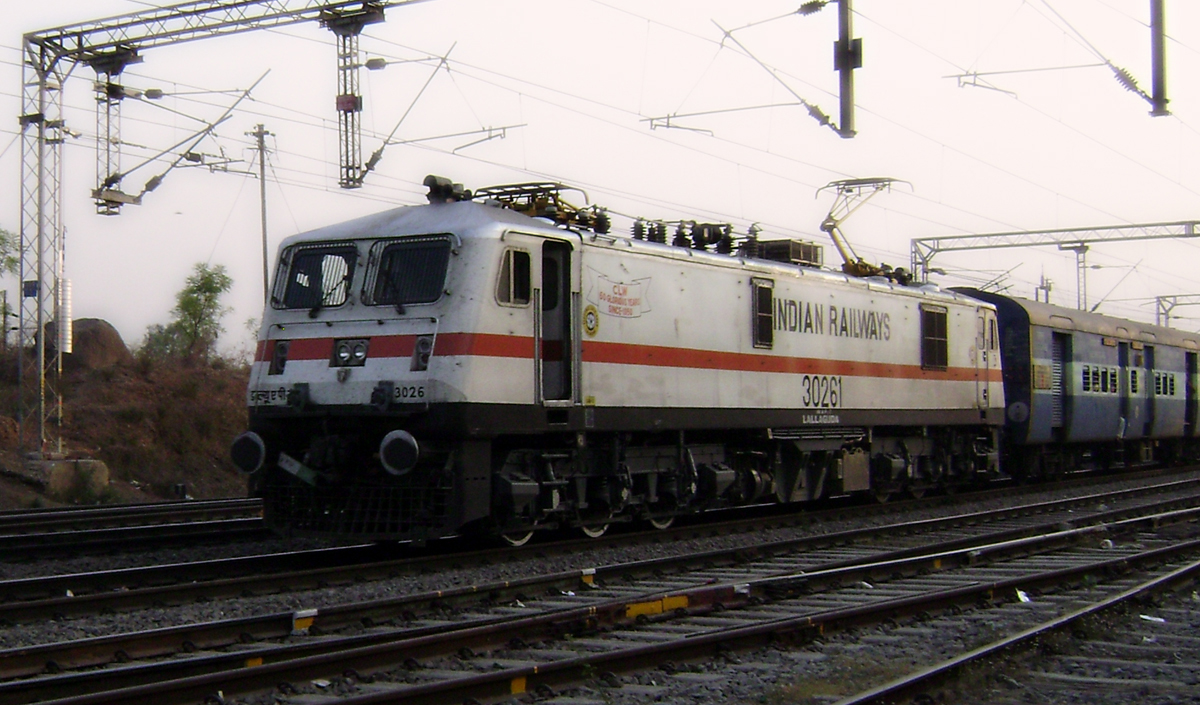 12737 Goutami Express at Moula-ali with WAP-7 loco